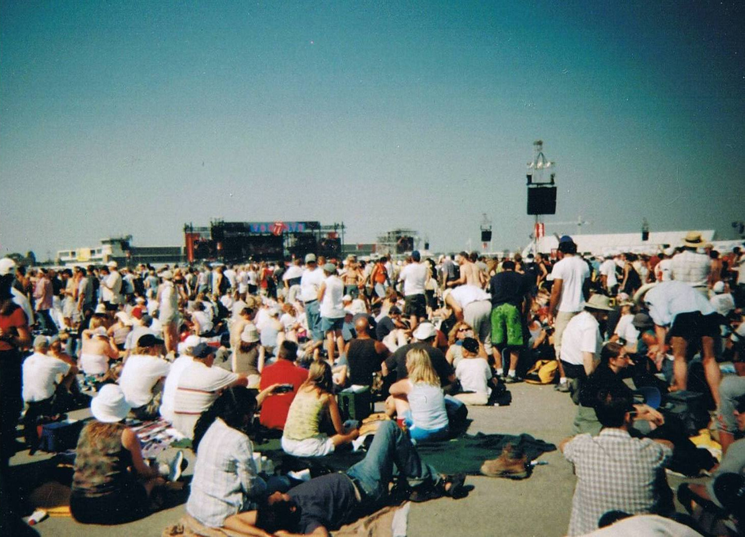 Sarstock/Rolling Stones & Friends. Downsview Park, Toronto, Ontario, Canada. August 2003.